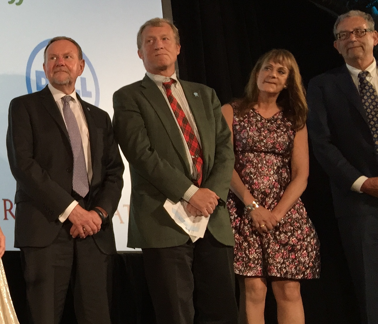 Co-hosts of the dinner gala: Airbnb, Salesforce Foundation, Dell, United Nations Foundation, Kaiser Permanente, Tom Steyer, The Parker Foundation, and Nancy Pfund and Phil Polakoff